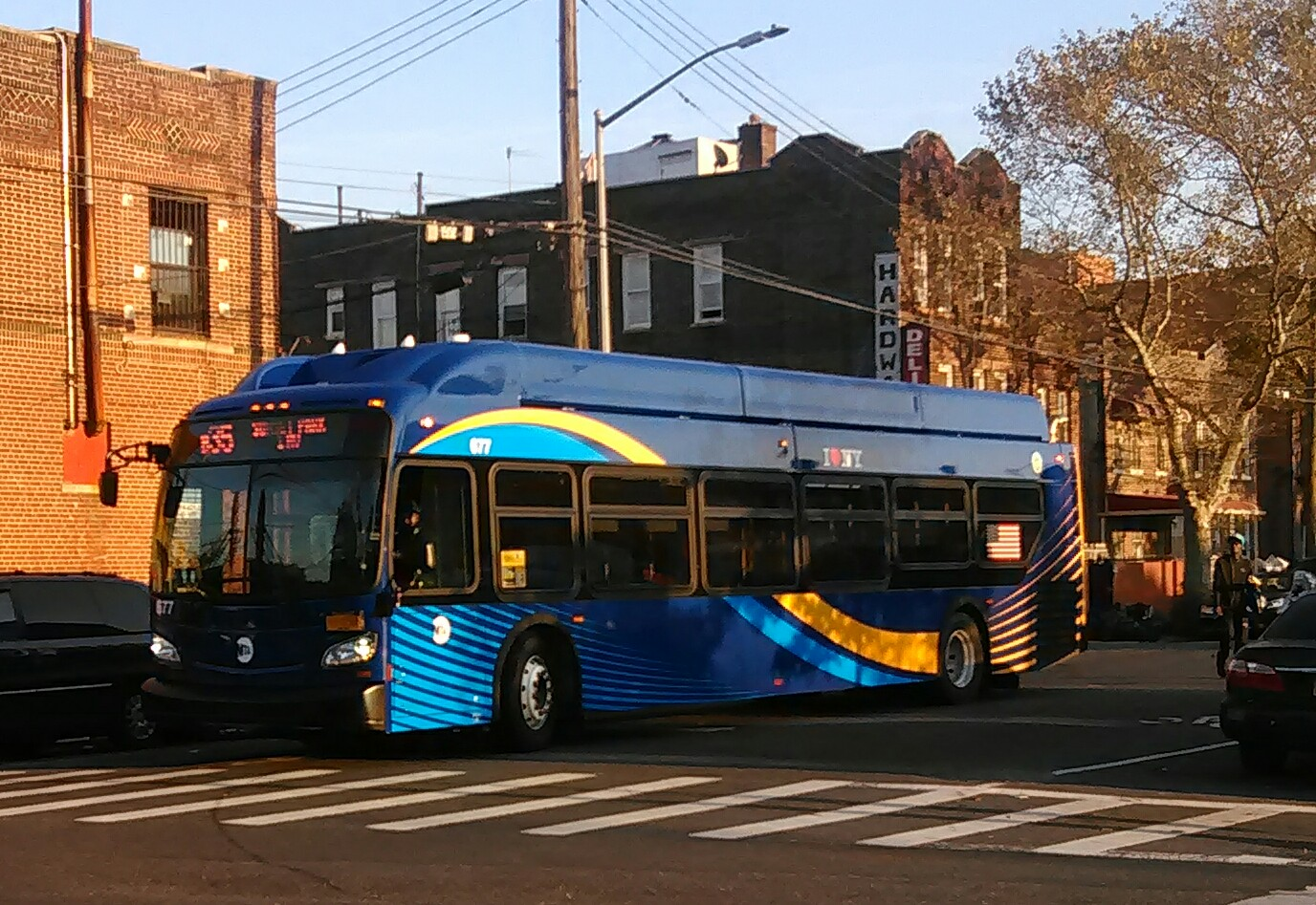 New Flyer XN40 on B35 Route